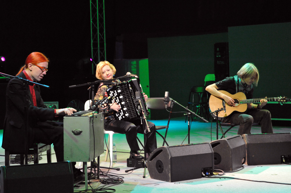 Maria Kalaniemi - accordion player from Finland, performing in Warszawa during Cross Culture Festival 2011 with Eero Grundström on harmonium and Olli Varis on guitar.